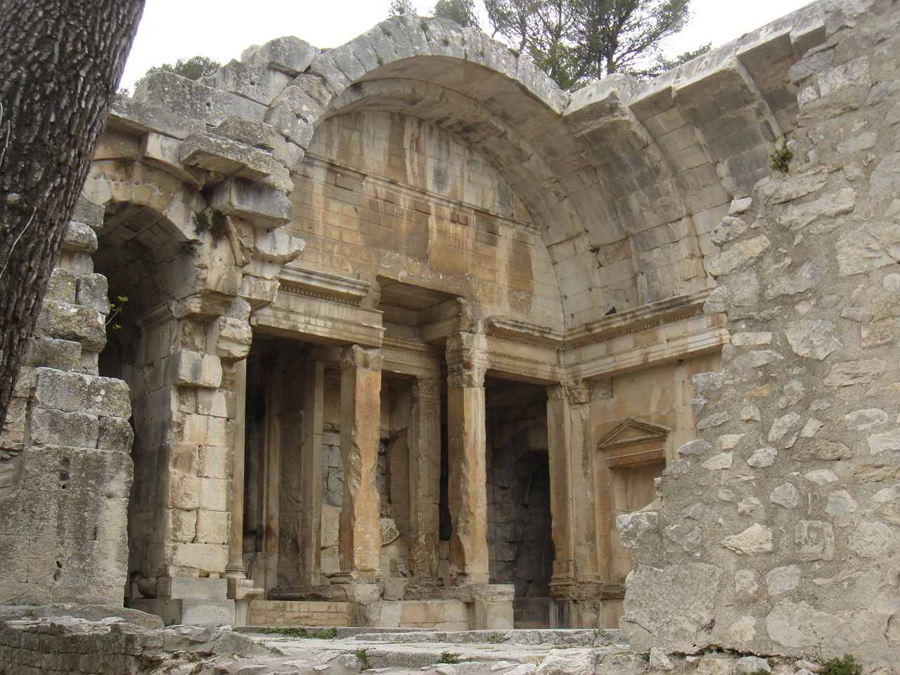 The Temple of Diane in Nîmes.